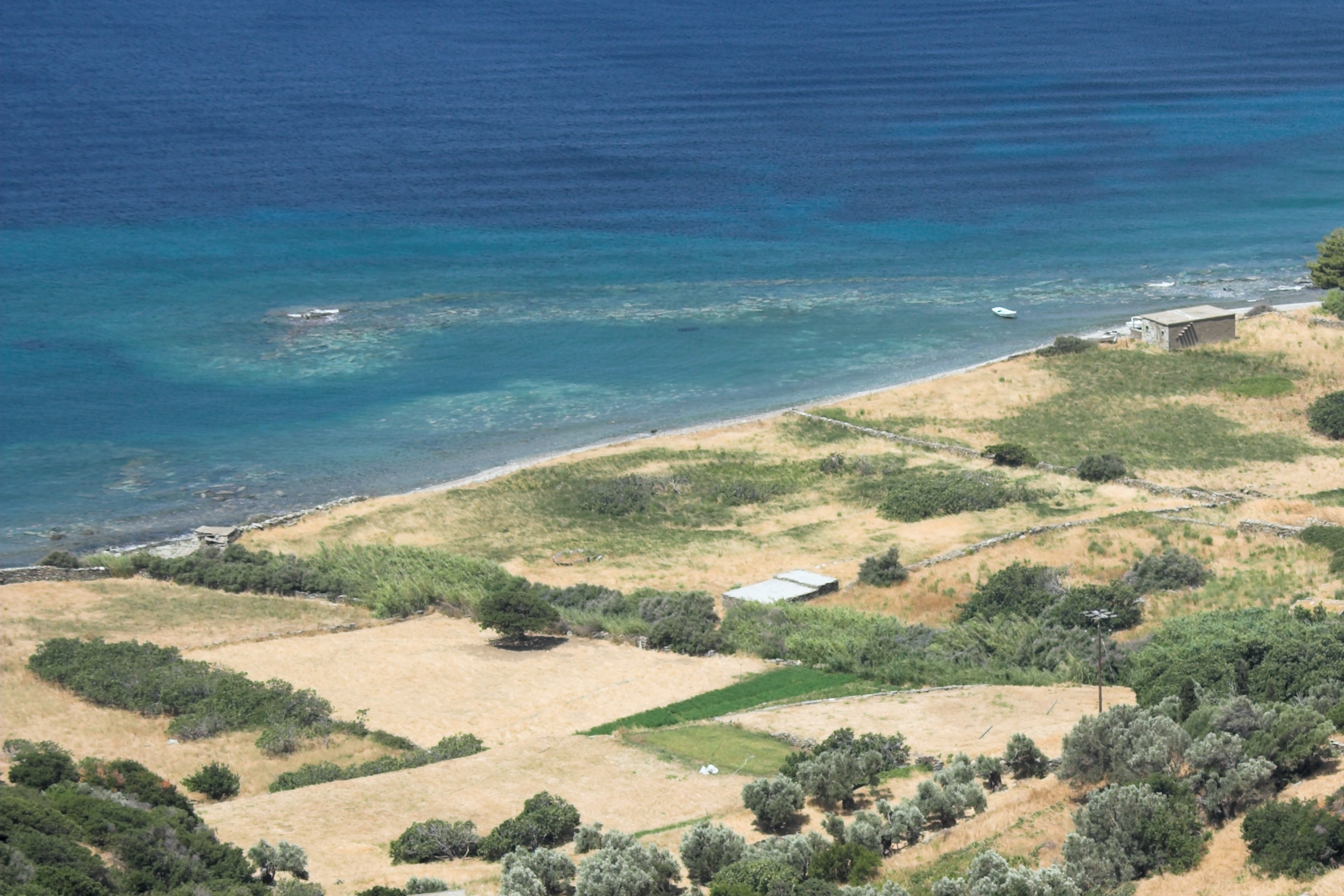 Bay under the modern village, where once stood the ancient city Paleopolis. Andros. In the sea is visible ancient port.